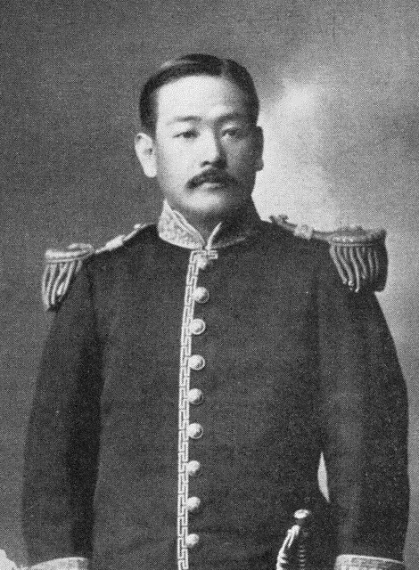 Takayoshi Kyogoku